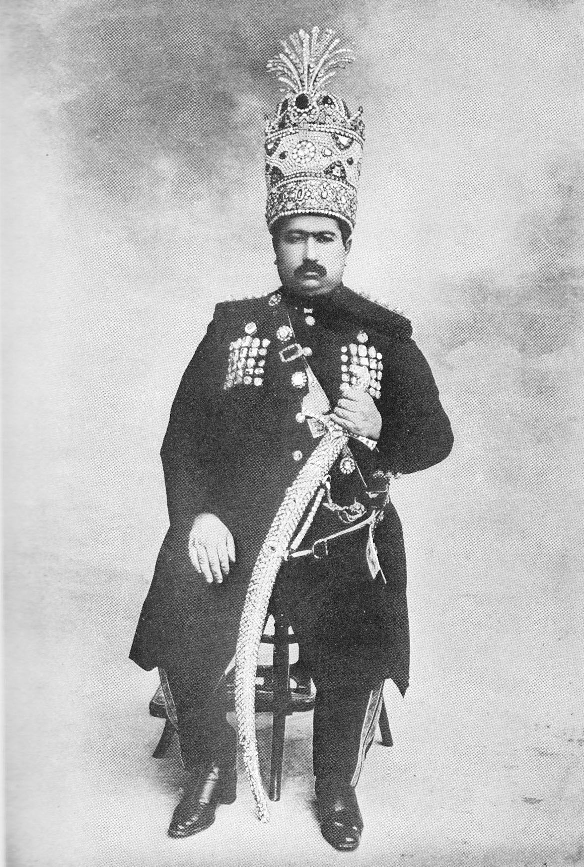 Mohammad Ali Schah